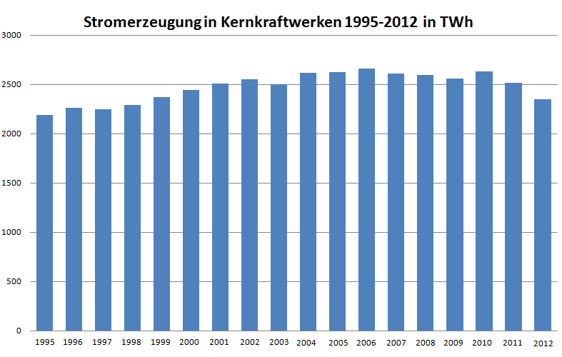 Production of nuclear power plants 1995-2012